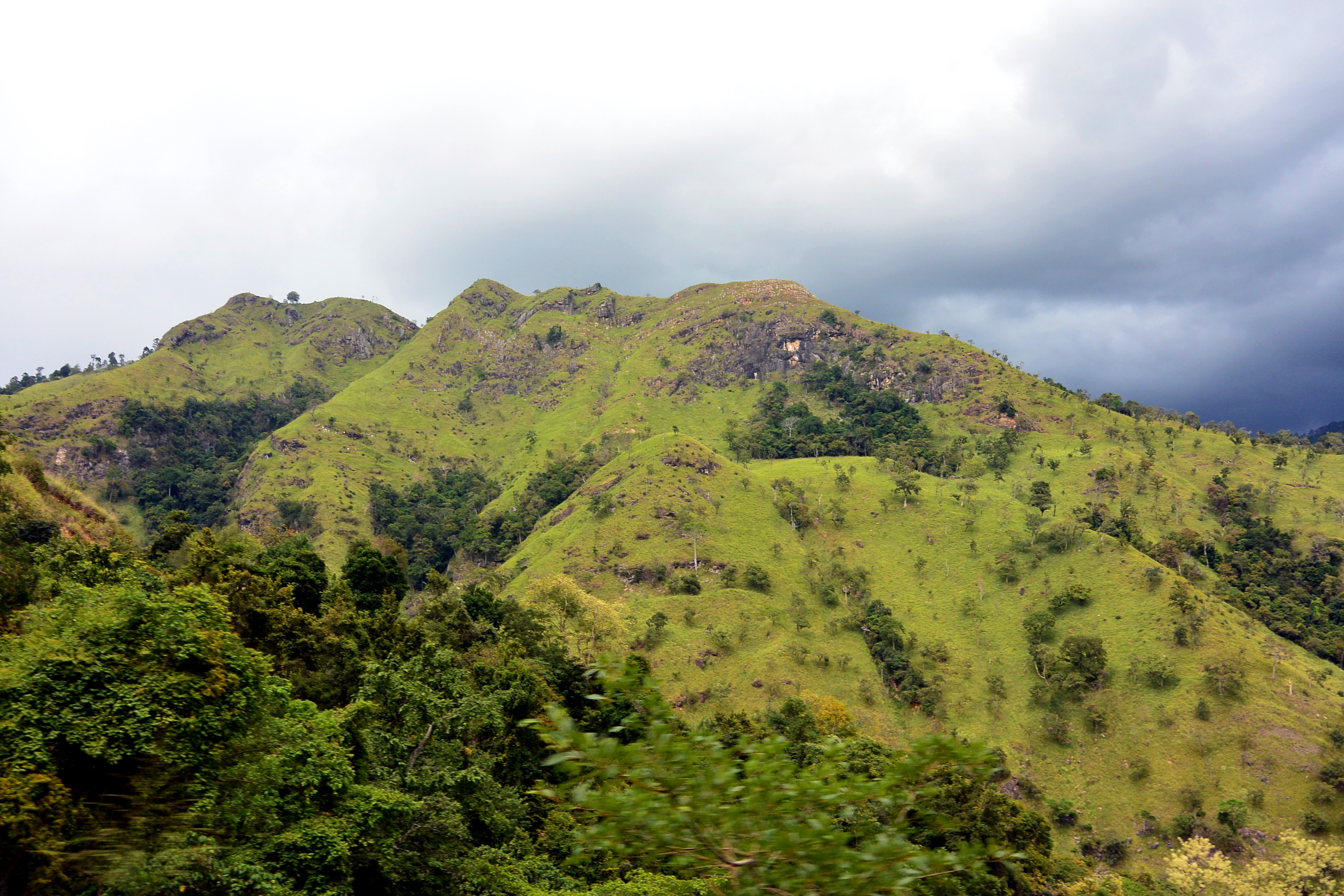 Ella Rock